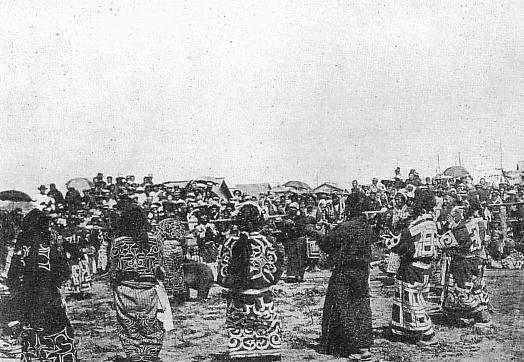 Iomante(Ainu traditional ceremony)